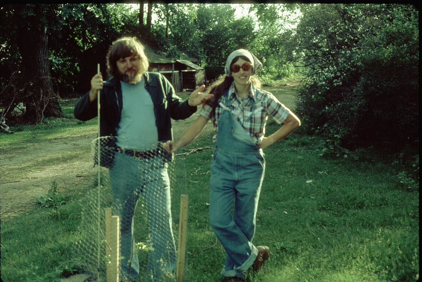 Maryann and Werner Krieglstein posing on their Michigan farm in the late 1970s